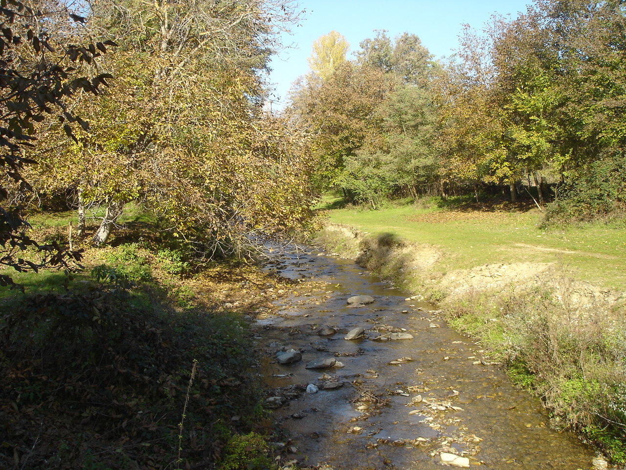 Radibuš River in Rankovce Municipality, Kriva Palanka region, Macedonia